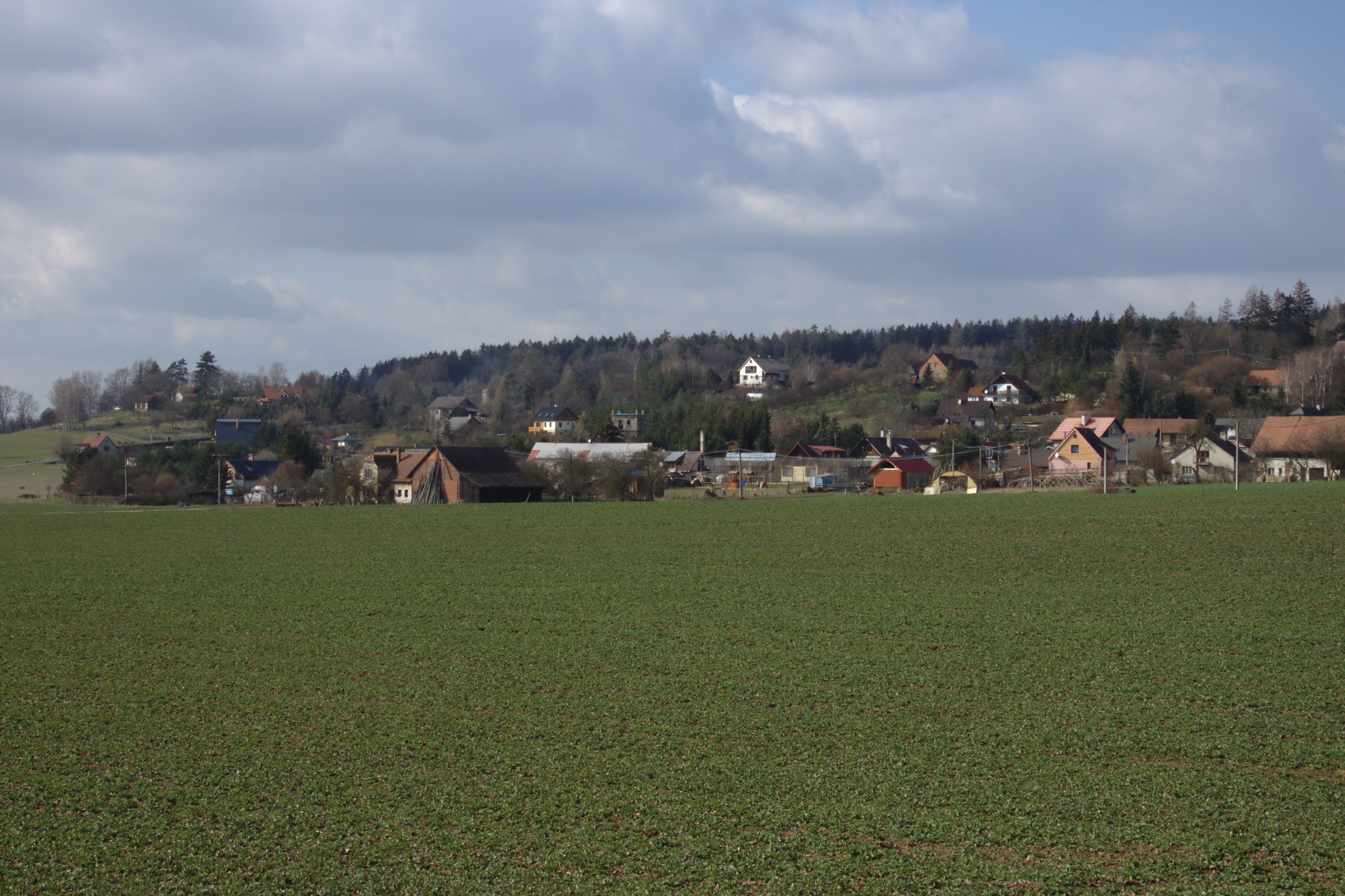 View of the Zámostí-Blata village near Maršov, Hradec Králové Region, CZ